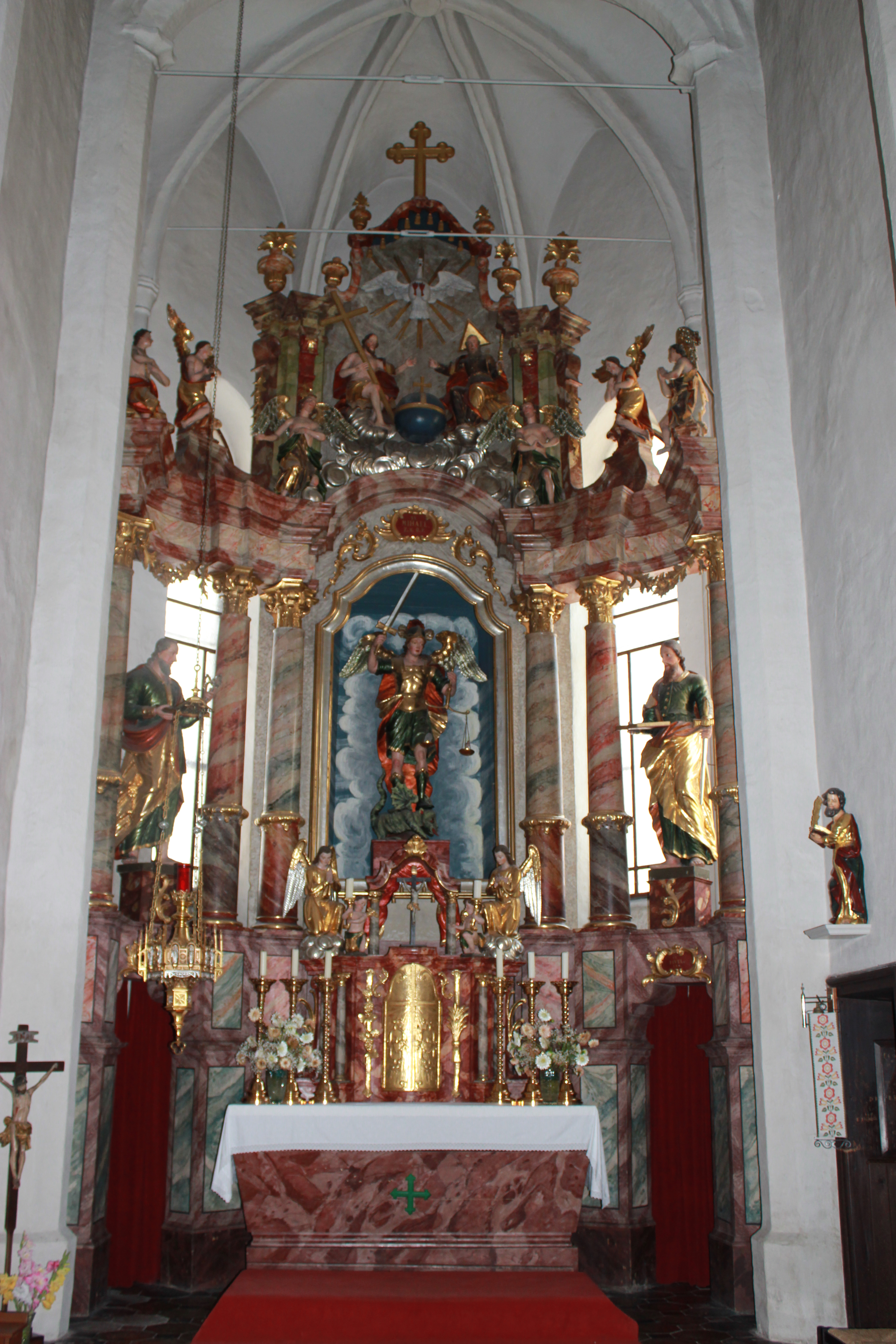 Parish church in Eisenkappel-Vellach - mainaltar